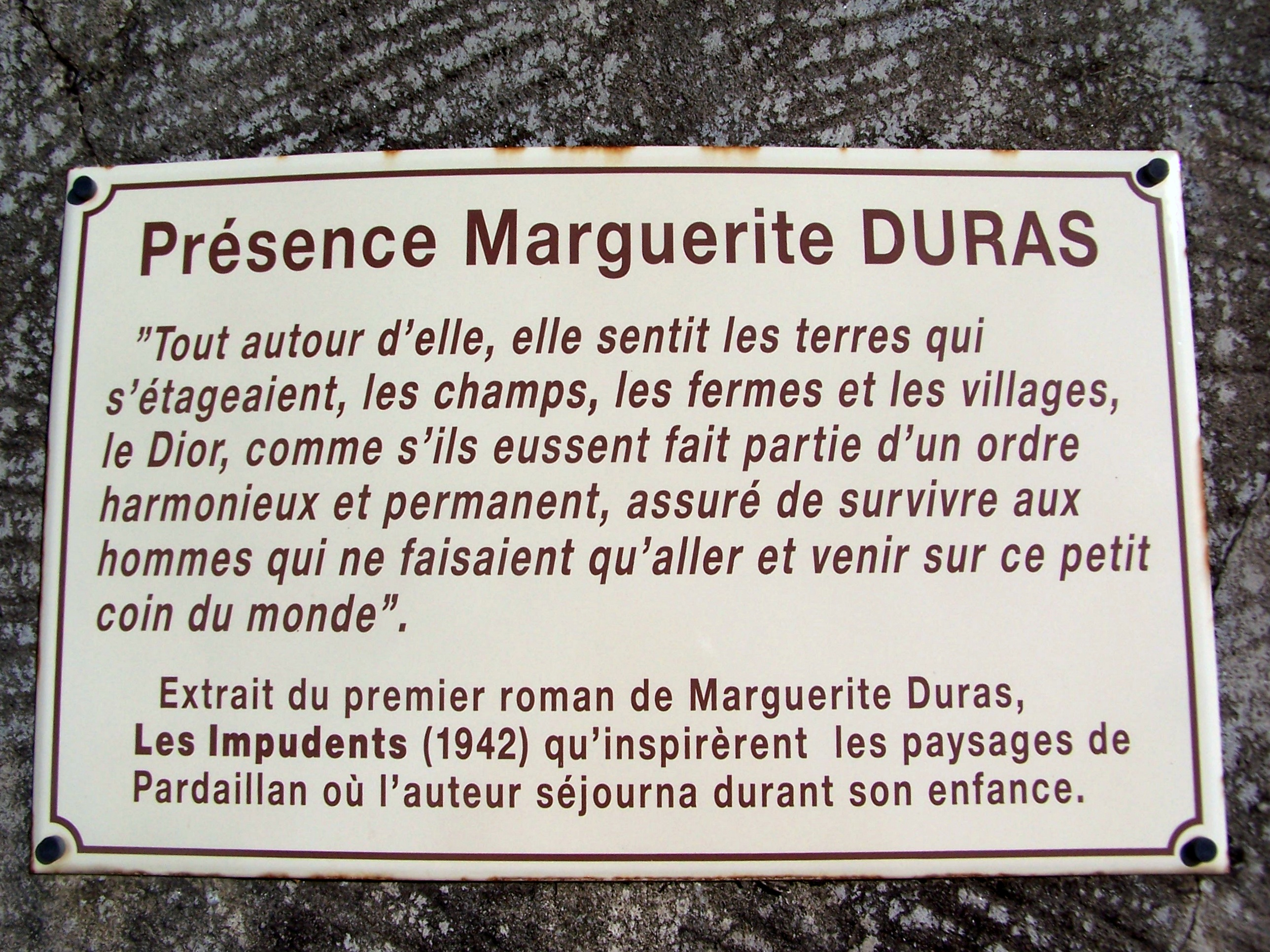 Commemoration plate for Marguerite Duras in Pardaillan (Lot-et-Garonne, France)